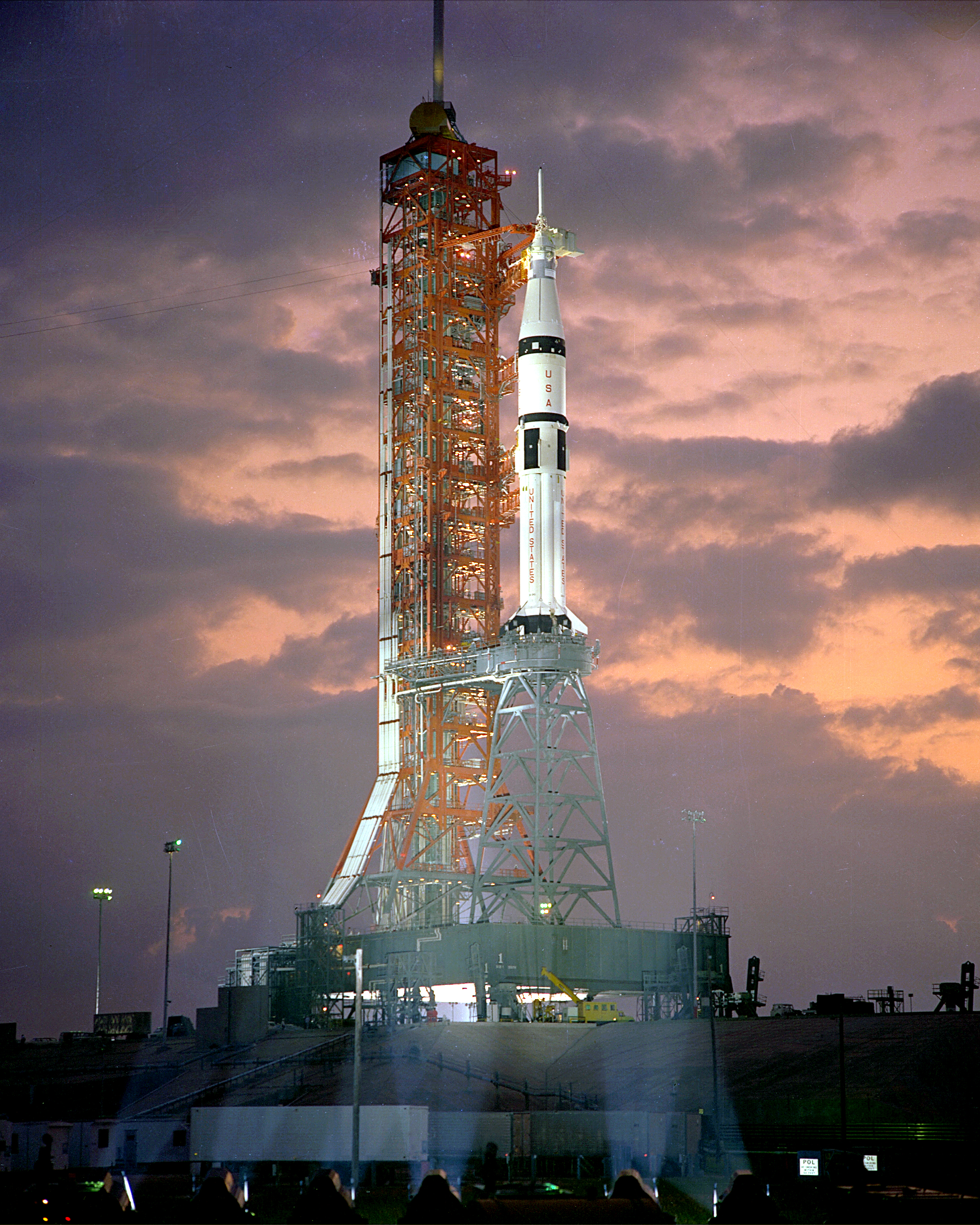 Dawn breaks behind the ASTP Saturn IB launch vehicle during the Countdown Demonstration Test. The Mobile Service Structure was moved away from the vehicle for the test, which is a step-by-step dress rehearsal for the launch culminating in a simulated T-zero and launch. During the test, the stages of the Saturn IB rocket are fueled as they will be on launch day, July 15. Following the simulated liftoff, the fuels will be offloaded and the terminal portion of the count will be repeated tomorrow with the prime crewmen Thomas Stafford, Vance Brand and Donald Slayton aboard the spacecraft.